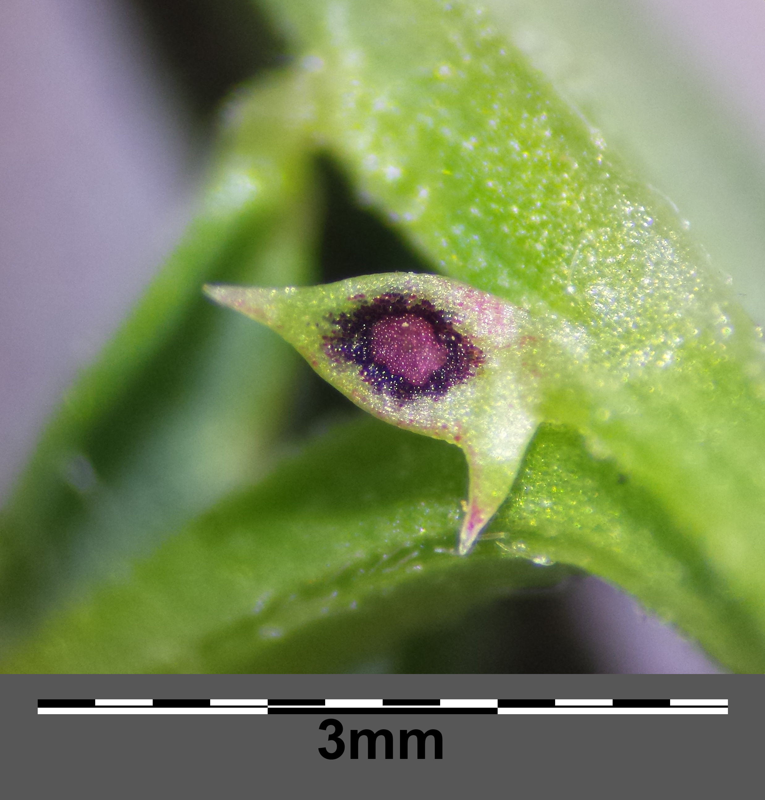 Stem with stipule with nectary Taxonym: Vicia lutea ss Fischer et al. EfÖLS 2008 ISBN 978-3-85474-187-9 Location: Korneuburg rail station, district Korneuburg, Lower Austria - ca. 170 m a.s.l. Habitat: ruderal meadows